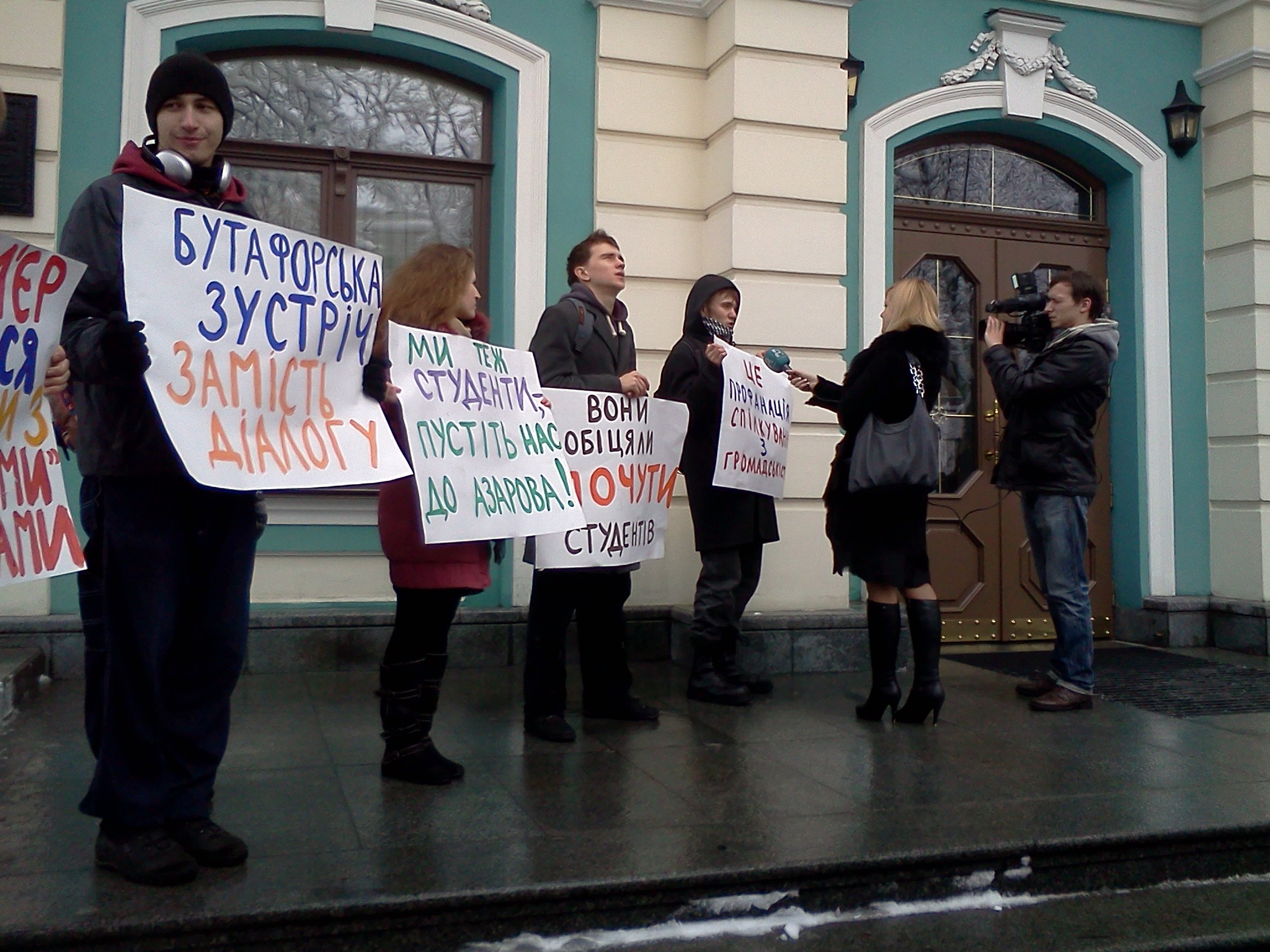 Picture made by activist of "Vidsich".